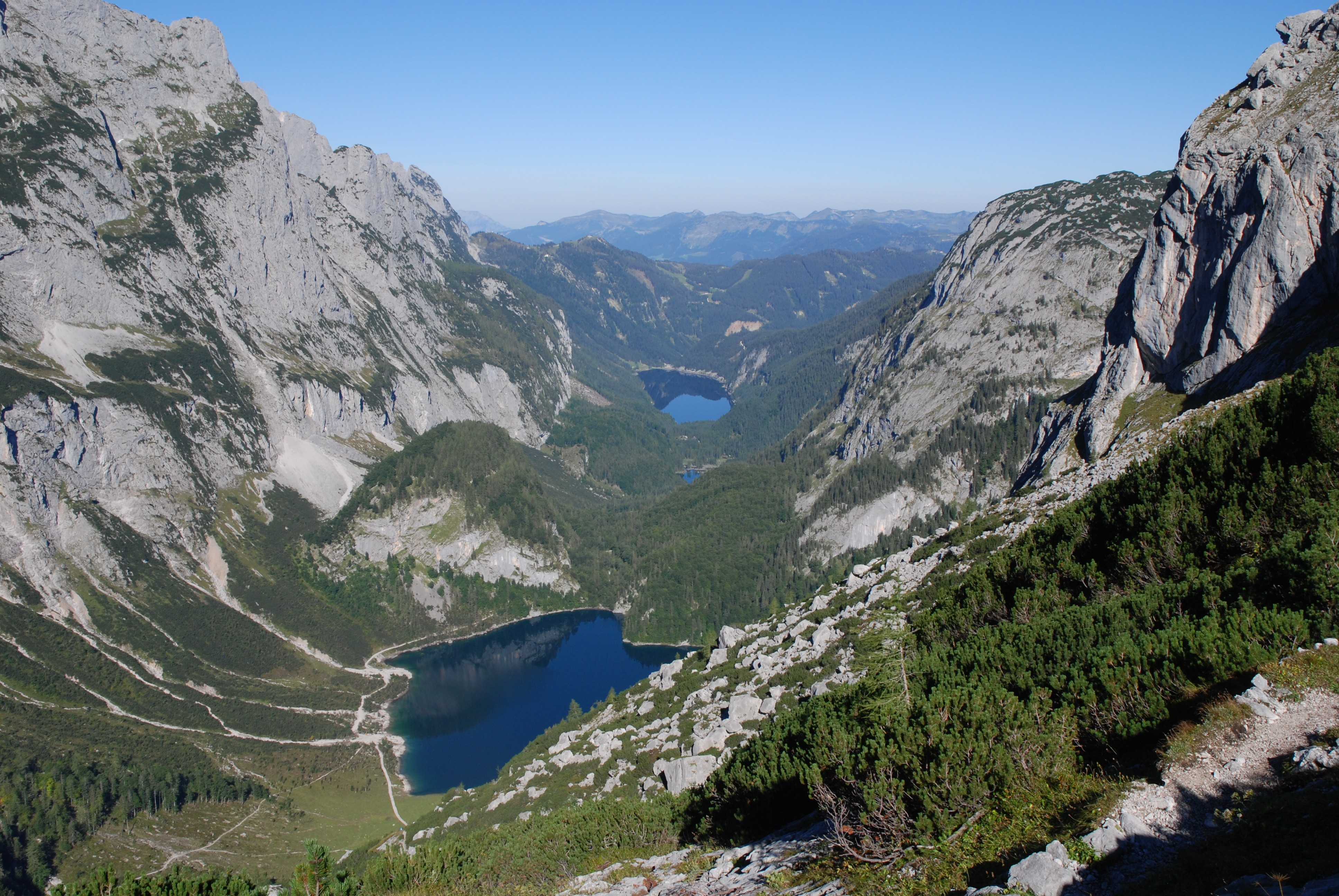 Hinterer Gosausee, Gosaulacke und Vorderer Gosausee, Upper Austria, Austria